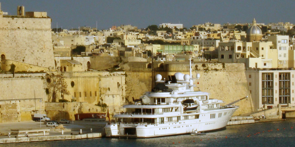 yacht Tatoosh in the harbor at Valletta,Malta